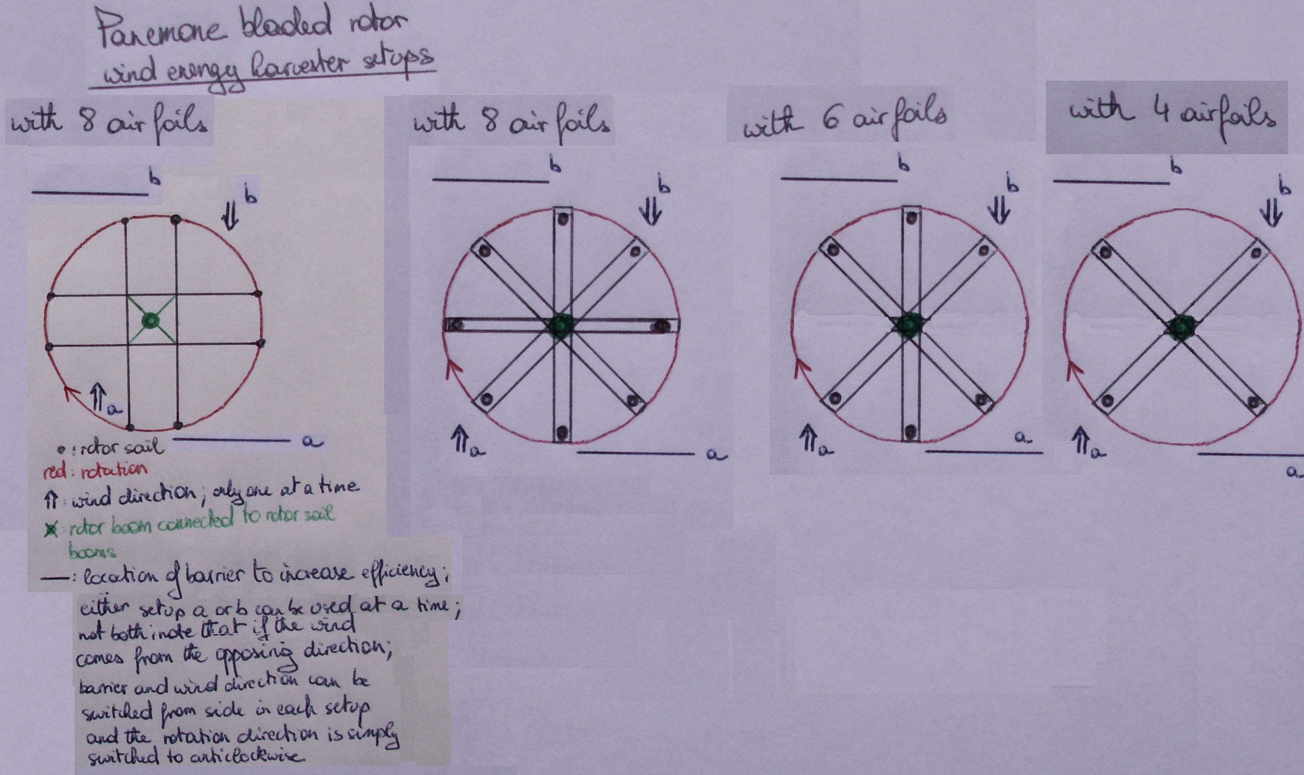 A hand drawn schematic showing possible setups for panemone wind energy harvesters. The schematic also show the placement of a windbarrier to increase efficiency. The schematic was based on the drawing at